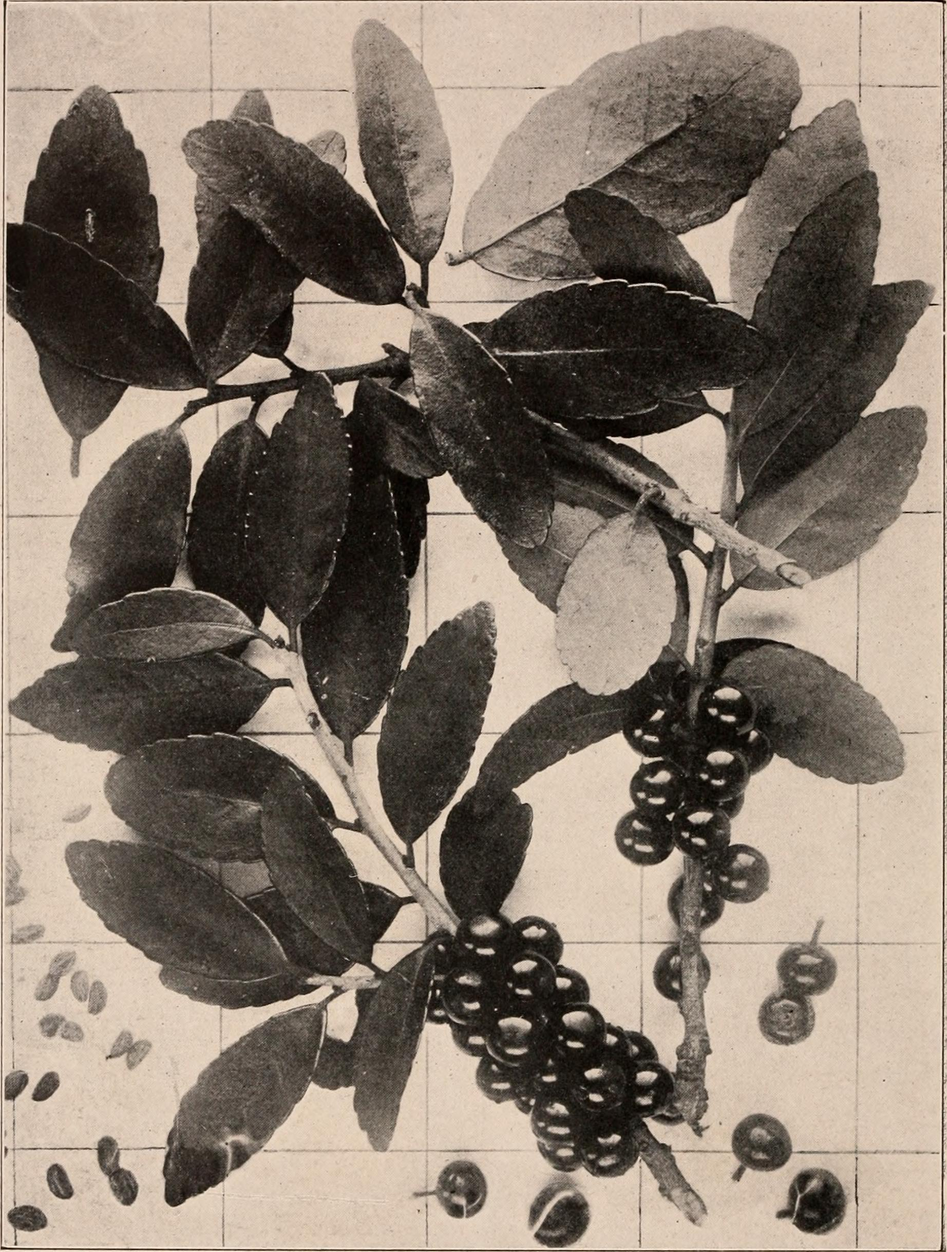 Identifier: handbookoftreeso00houg Title: Handbook of the trees of the northern states and Canada east of the Rocky mountains. Photo-descriptive Year: 1907 (1900s) Authors: Hough, Romeyn Beck, 1857-1924 Subjects: Trees -- North America Publisher: Lowville, N. Y., The author View Book Page: Book Viewer About This Book: Catalog Entry View All Images: All Images From Book Click here to view book online to see this illustration in context in a browseable online version of this book. Text Appearing Before Image: YAUPON. Ilex vomitoria Ait. Text Appearing After Image: Fig. 370. Branchlets with mature fruit : scattered fruits and nutlets.371. Trunk of small tree in eastern North Carolina. Handbook ok Treks of tjik ^^)ktiikkn States and Canada. 317 riie Yau[)(jii is a small tree occasionallyiiUixining the luij,lit of 20 or 30 ft., with densetop of many branches and usually more or lessinclined trunk from G to 10 or 12 in. in diameter. It is often shrubby, sending up severaltrunks from a common base. It is confinedto the immediate vicinity of the coast, seemingto rccjuire the intluence of the sea breezes inorder to maintain its existence, excepting inthe lower Mississippi valley where it venturesfarther inland. It is a tree of rare beauty inautumn and winter, when its brilliant redberries and handsome dark shining green leaveson livid branchlets are sought for Christmasdecorations. The leaves of the species possessstrong emetic properties, as implied in boththe specific name and one of the vernacular?iames — Enwtic HoUi/, — which was a fadknown to